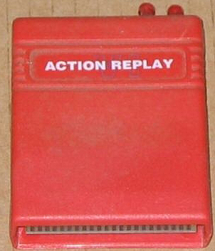 Action Replay Modul für den C-64